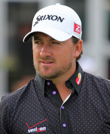 If you wish to use this image, credit with a followed link to